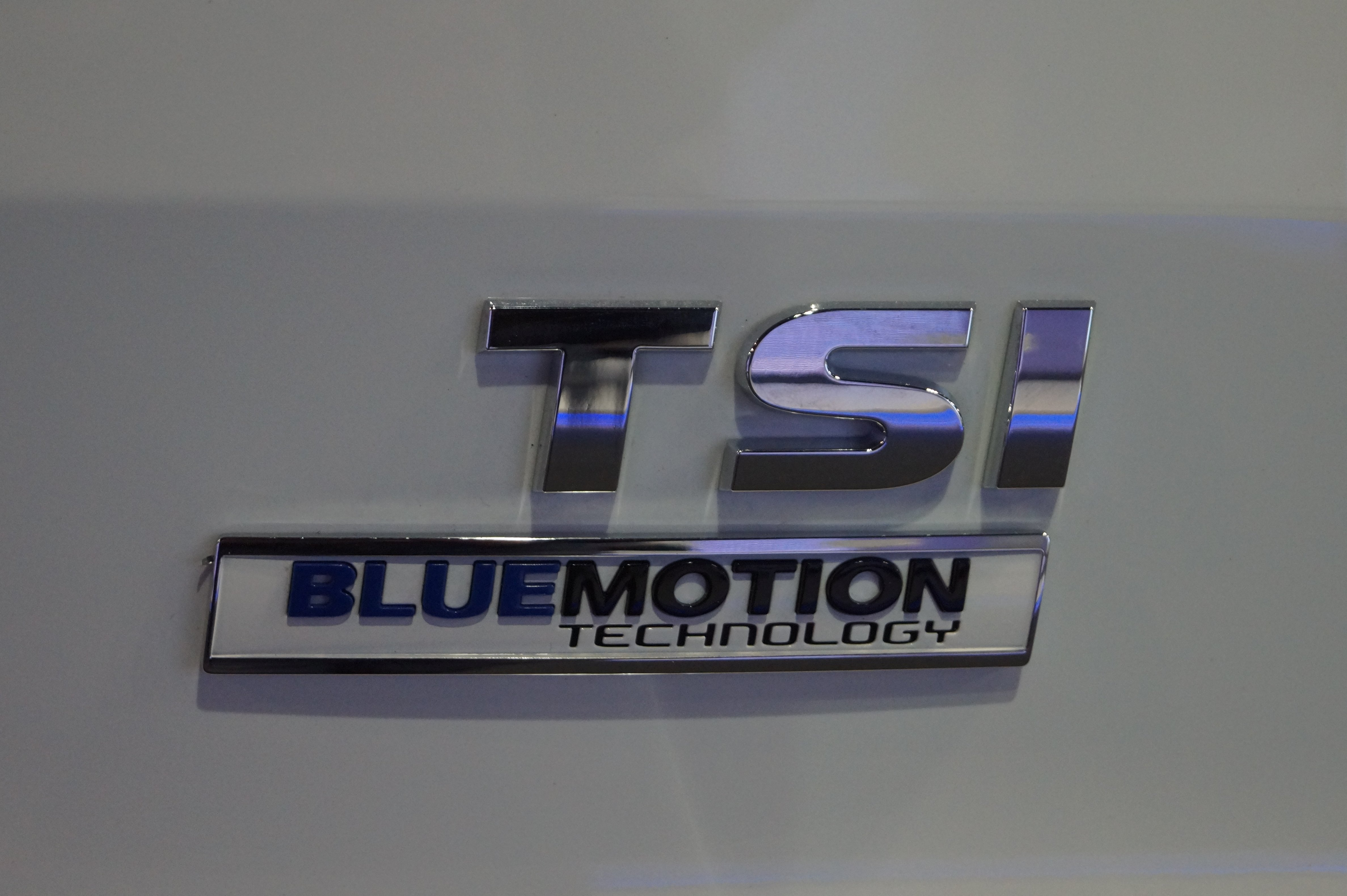 The making of this document was supported by Wikimedia Polska Association, within Wikigrant no. WG 2016-10. English | polski | +/− Logo Volkswagen TSI BlueMotion